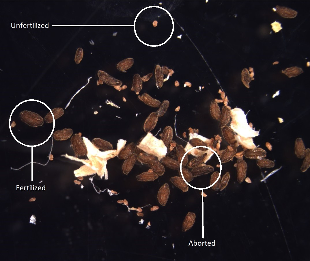 This image shows the fertilized, aborted, and unfertilized seeds in Mimulus guttatus.